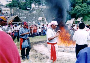 "Mayan priests dancing around fire at a ceremony" at the ruins of Tikal, Guatemala